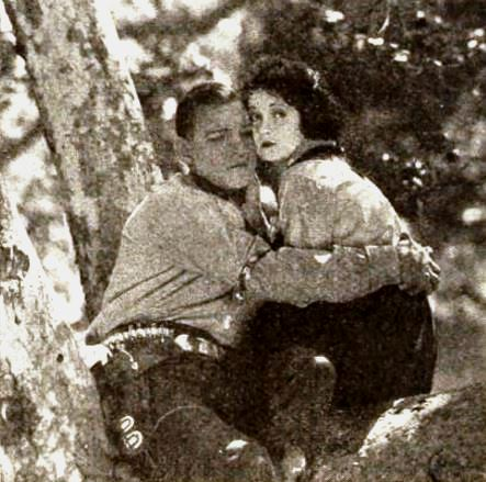 Still from the American western film Firebrand Trevison (1920) with Buck Jones and Winifred Westover, on page 106 of the August 14, 1920 Exhibitors Herald.